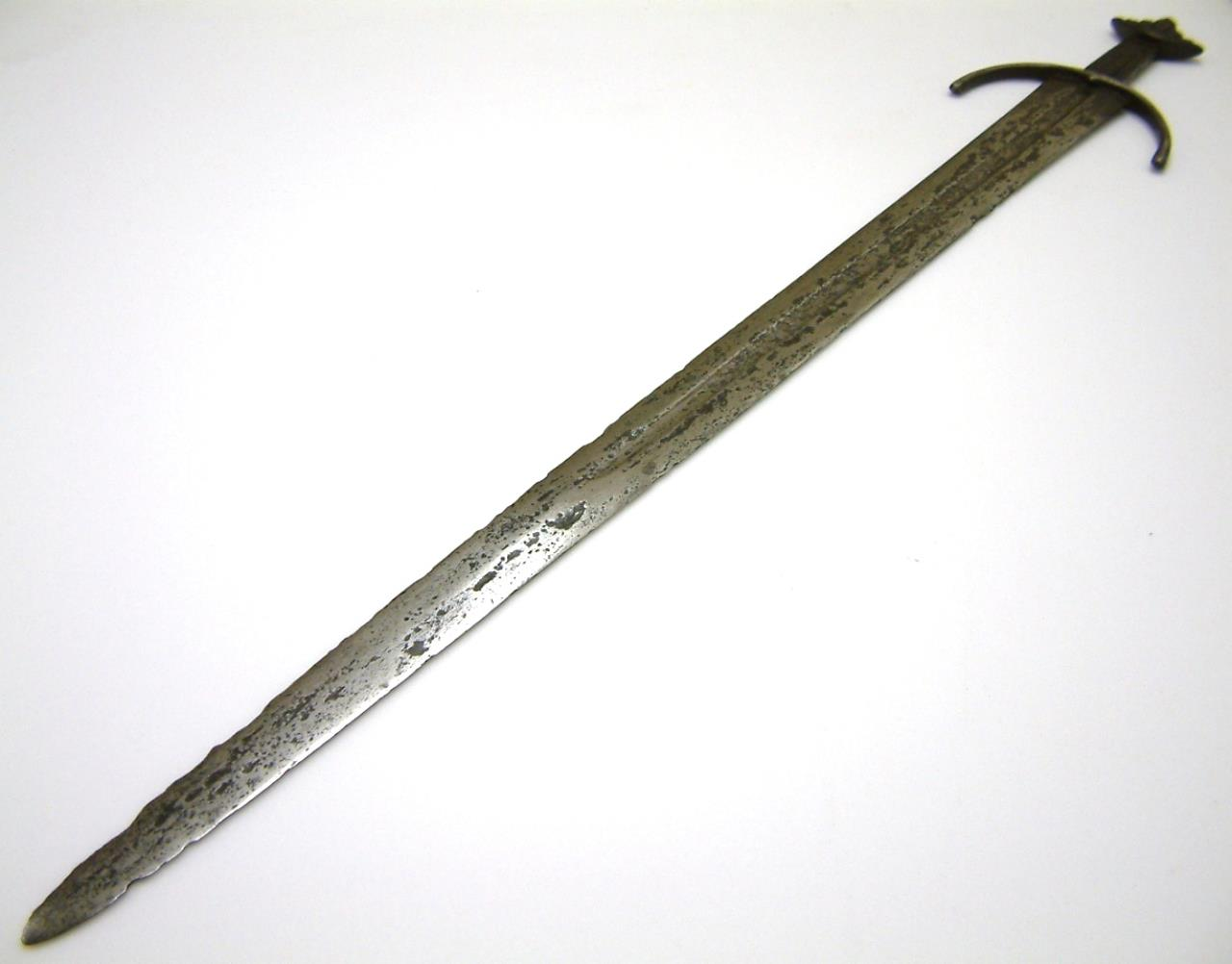 Sword with curved medieval-style guard and lobed Viking-style pommel. Inscribed on both sides of the blade. The pommel has a curved upper guard and is divided into five separate lobes radiation from the largest central piece. All are bisected by a groove along their length and at the point where all meet there is as small gap between the pommel and the upper guard mainly at the base of the central lobe, this shows some signs of damage/corrosion. The tang is intact and displays a wide shallow groove along its centre on both sides. The guard is curved and quite long, with a small triangular protrusion over the fuller of the blade on both faces; one half of the guard itself however is slightly deformed. The shoulder of the blade is proud of the top of the guard but is smaller than the tang. A long shallow fuller runs most of the length of the blade and is inscribed on both sides though it becomes increasingly worn as it nears the tip to the point of illegibility. The tip of the blade shows some damage but the base is in very good condition.